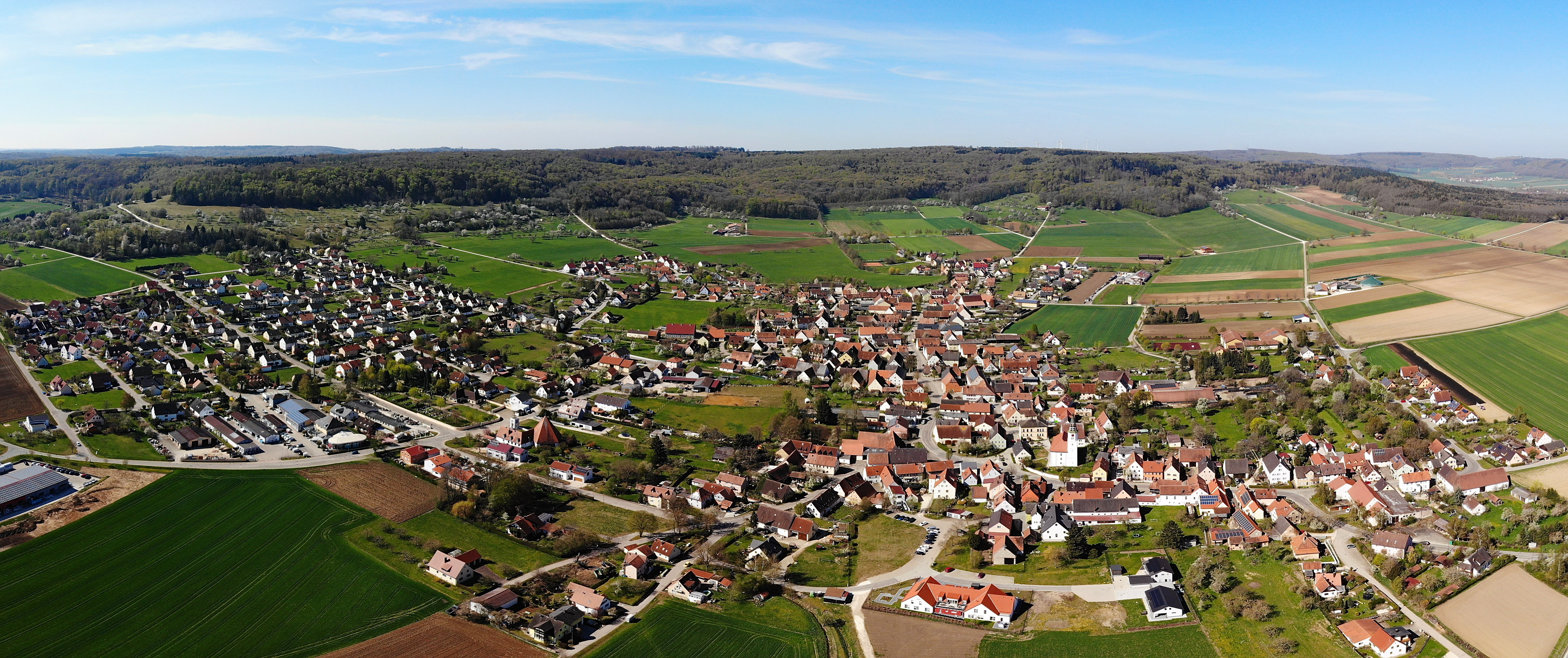 Markt Berolzheim Panorama Luftaufnahme (2020)